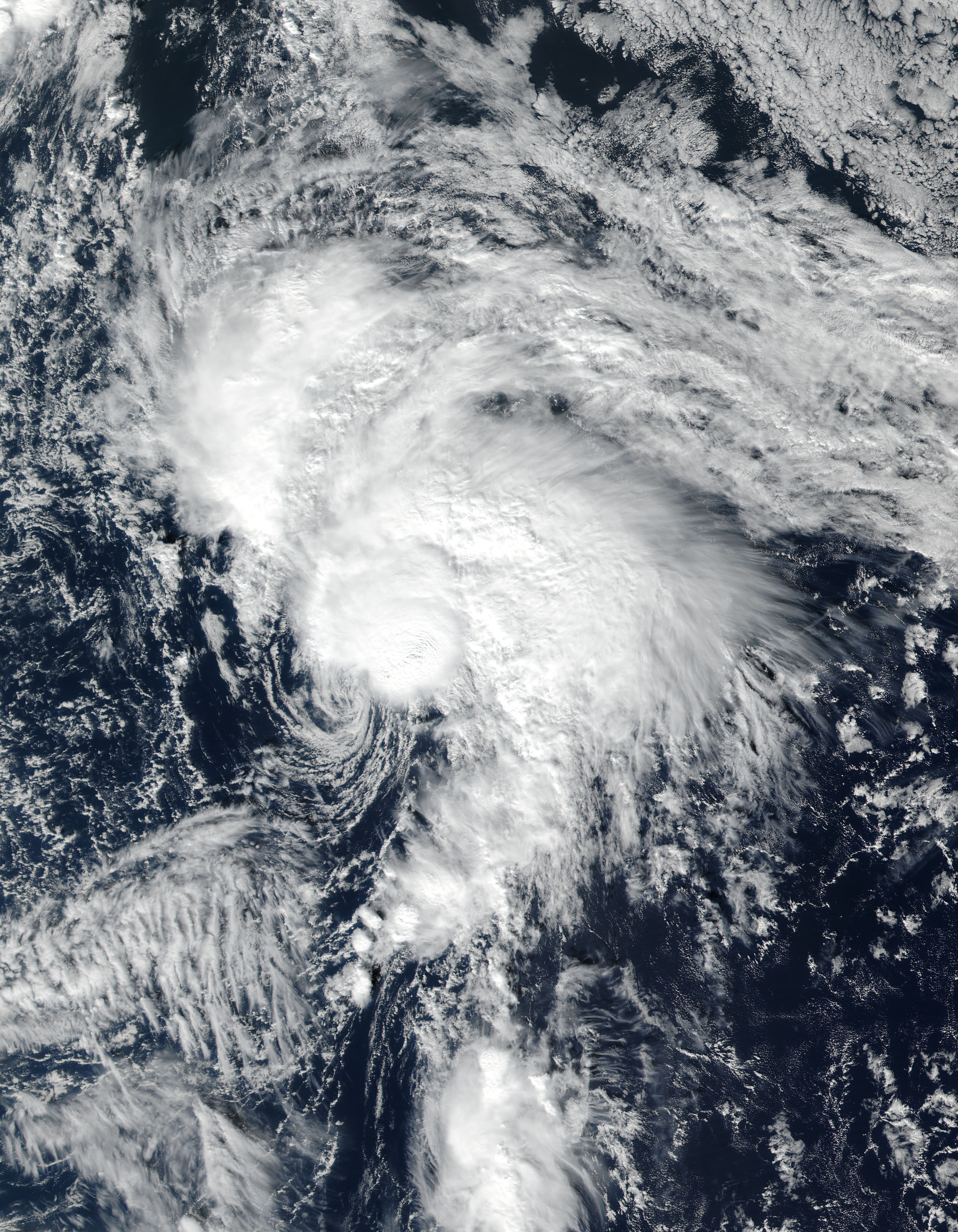 Tropical Storm Rina (19L) in the Atlantic Ocean